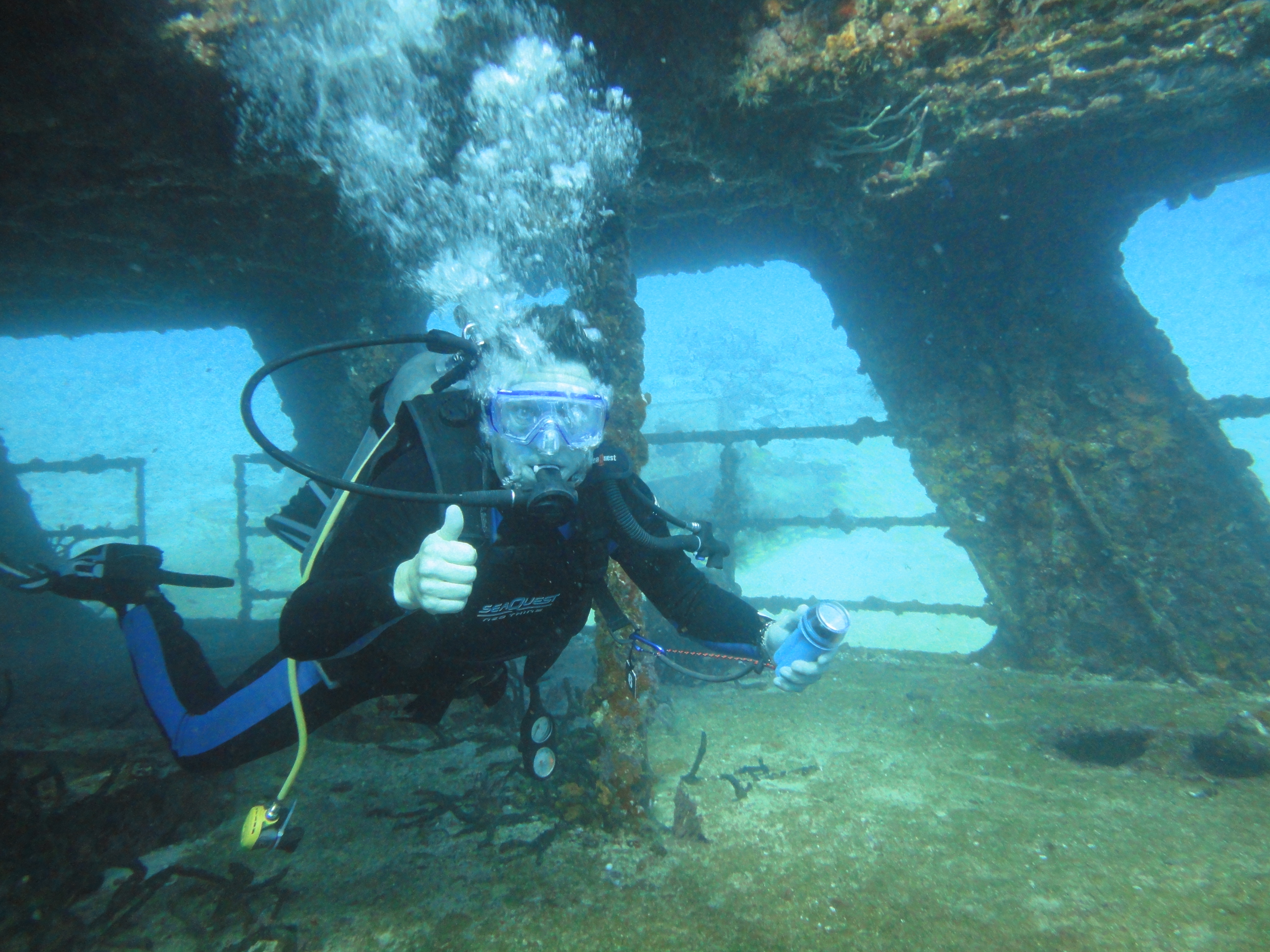 Portrait of Bill Evans, meteorologist, scuba diving.